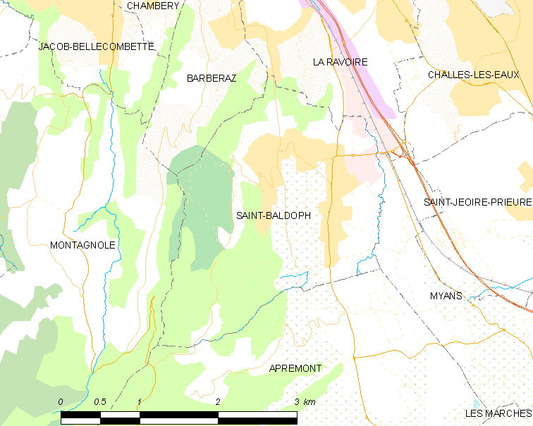 Map of French municipality